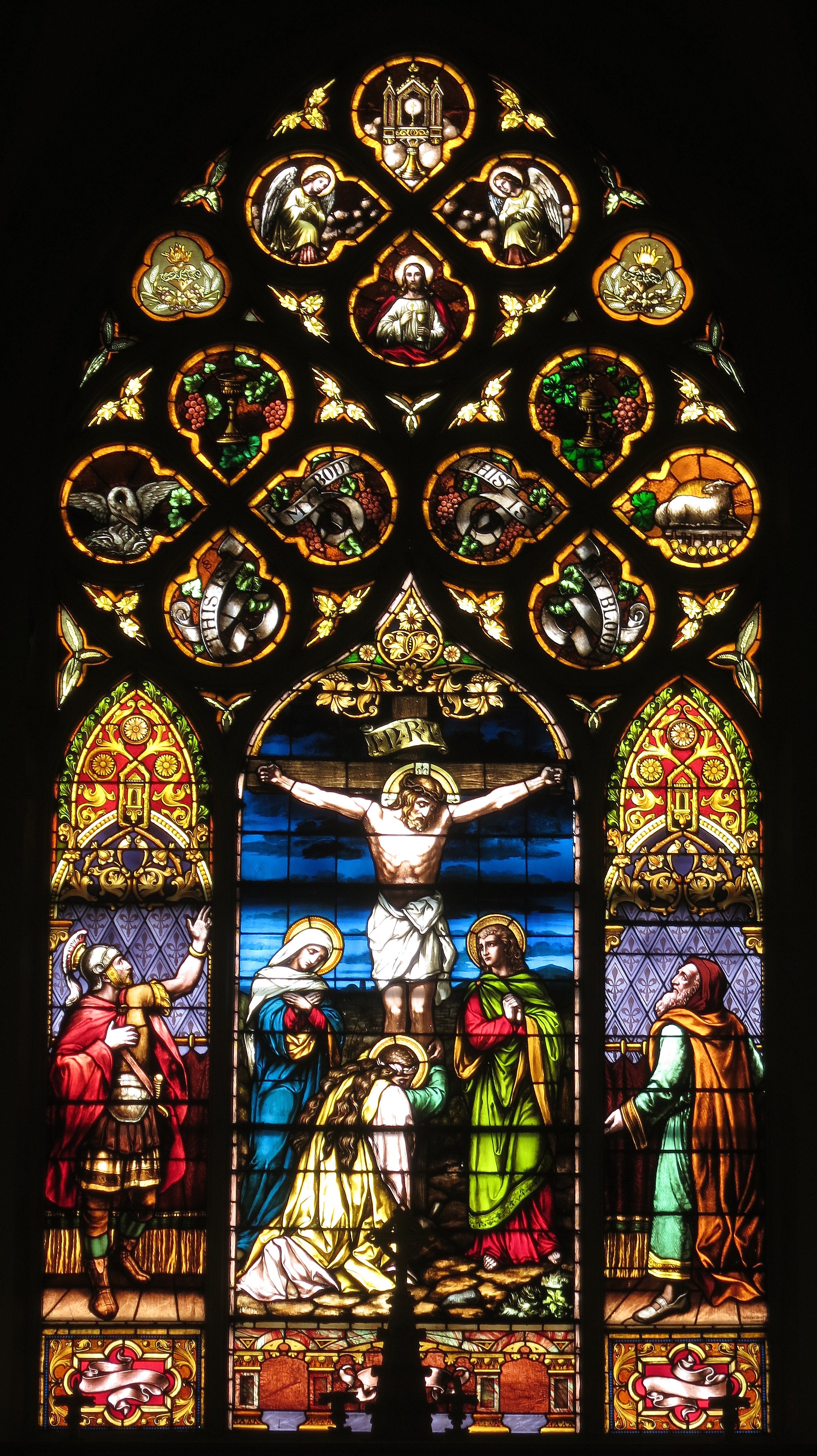 Saint Raphael Catholic Church (Springfield, Ohio) - stained glass, the Crucifixion